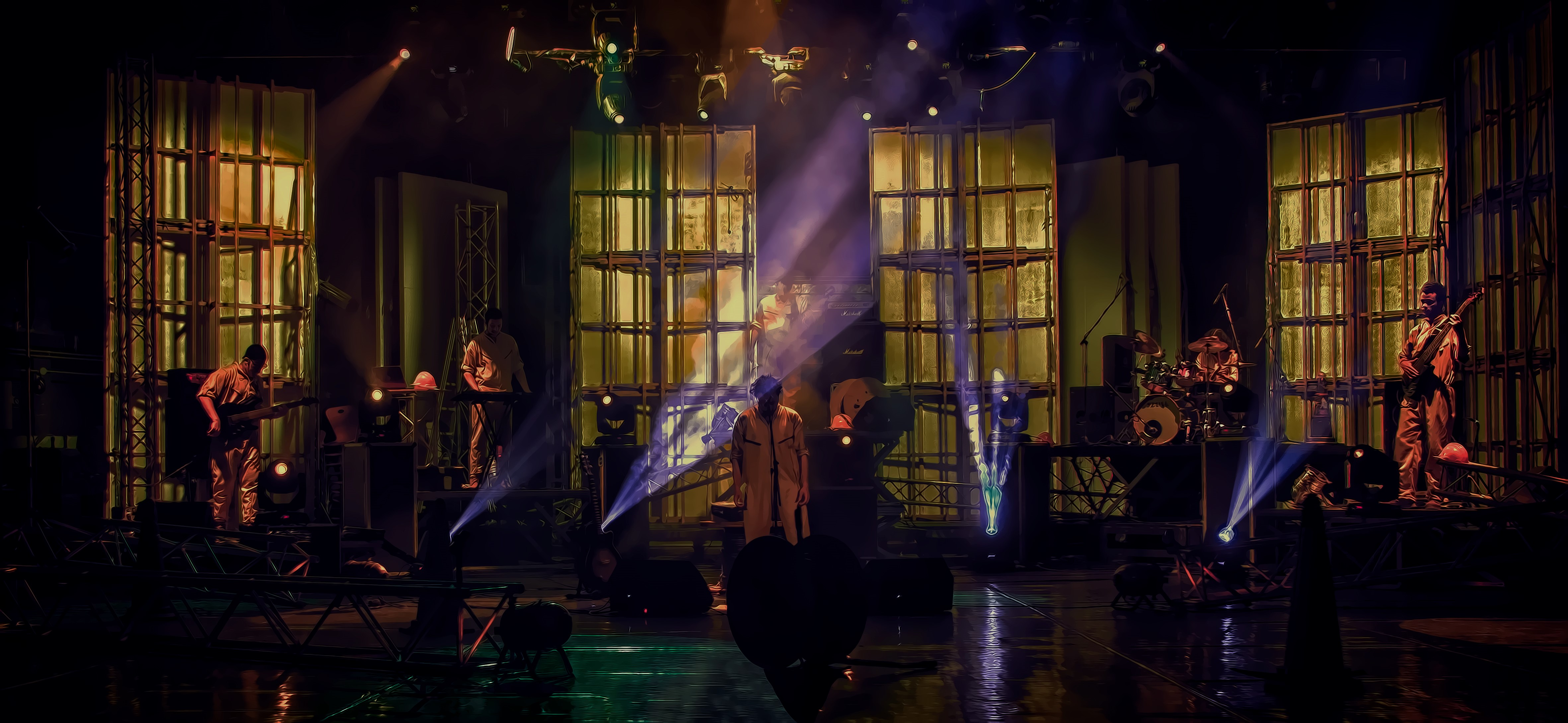 Qara Ezala band